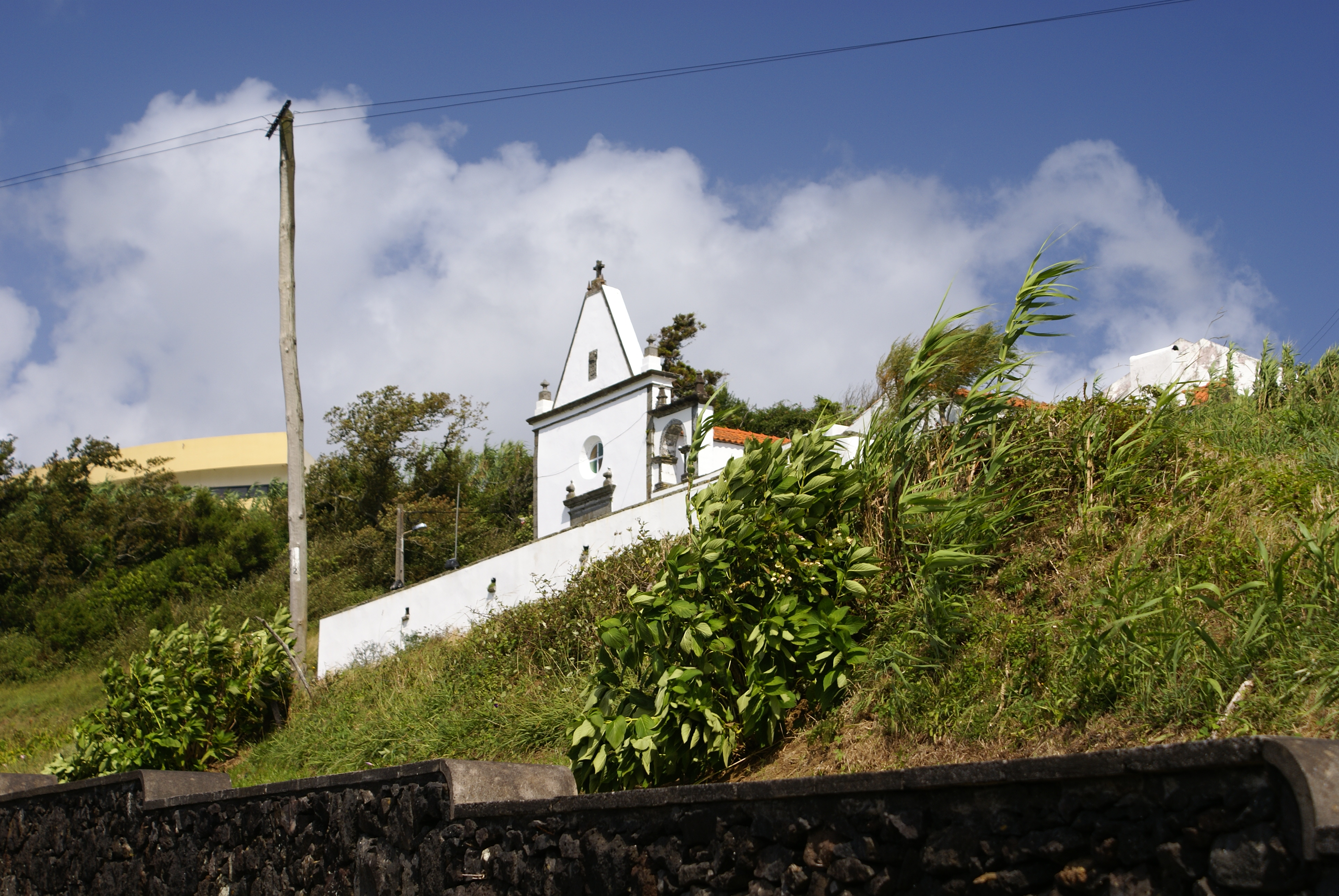 Ermida de Nossa Senhora do Pilar, vista, concelho da Horta, ilha do Faial, Açores, Portugal